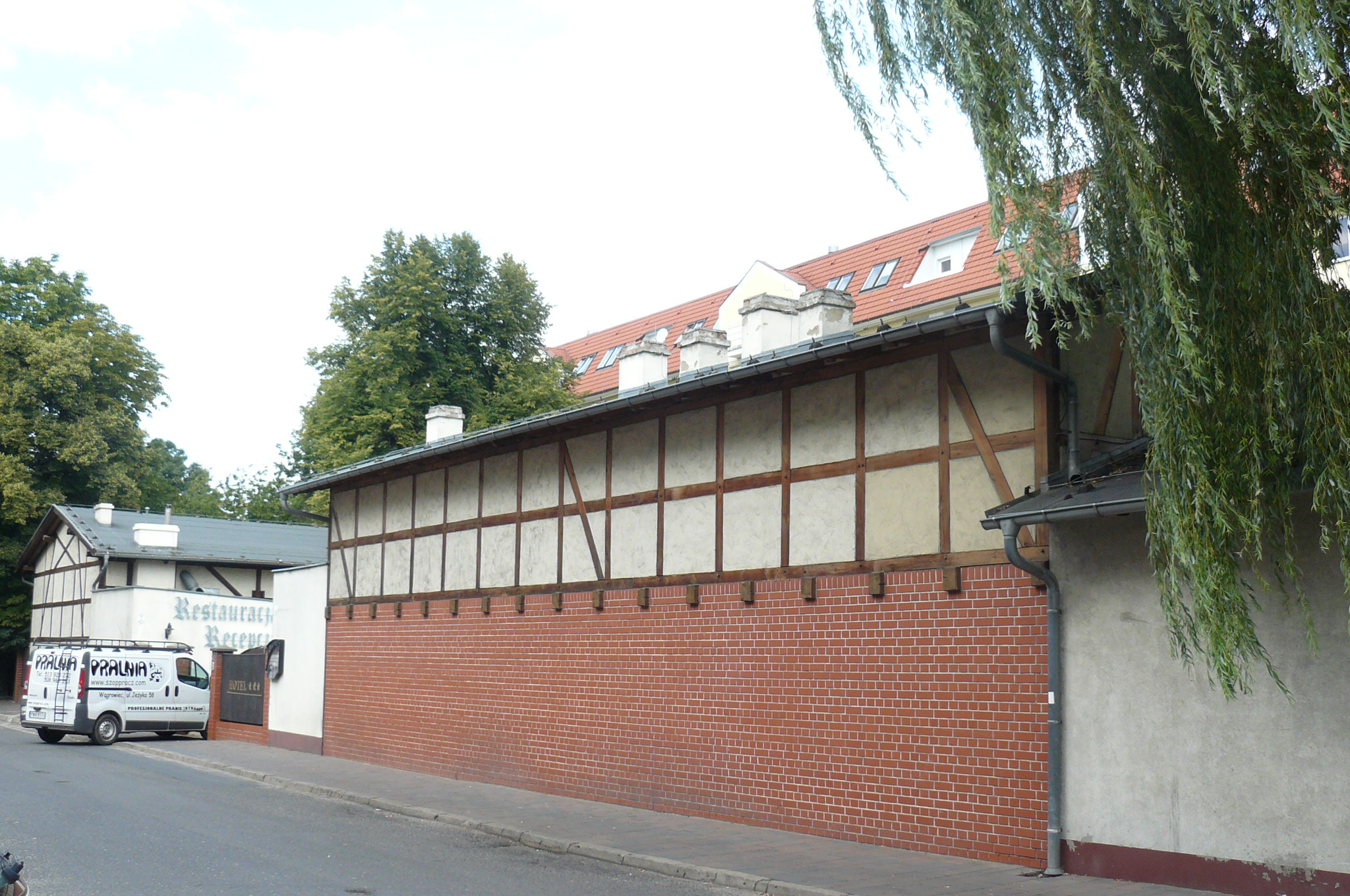 Poznań, Kościelna street. The old rural buildings. Remains of ancient settlements from Bamberg.